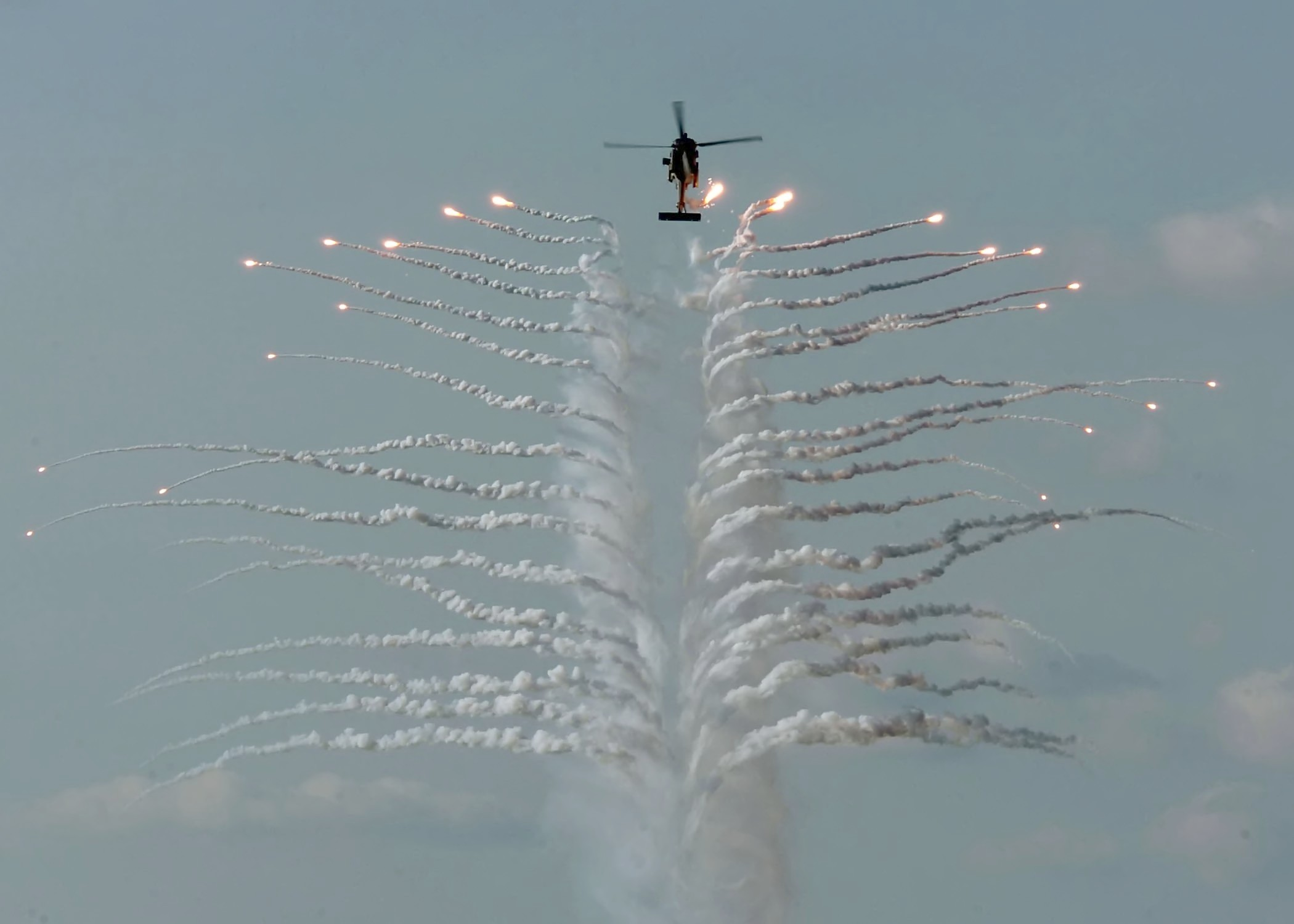 South China Sea (Dec. 1, 2005) - An HH-60H Seahawk helicopter, assigned to the “Chargers” of Helicopter Anti-Submarine Squadron Fourteen (HS-14), discharges countermeasure flares alongside the conventionally powered aircraft carrier USS Kitty Hawk (CV 63). Flares are part of the aircraft’s defense against surface-to-air and air-to-air infra-red (IR) heat-seeking missile attacks. The heat created by the flare will hopefully burn hotter than the aircraft engine and attract the incoming missile away from the aircraft. Kitty Hawk and embarked Carrier Air Wing Five (CVW-5) are currently conducting operations in the Western Pacific Ocean. U.S. Navy photo by Photographer’s Mate Airman Jonathan D. Chandler (RELEASED)